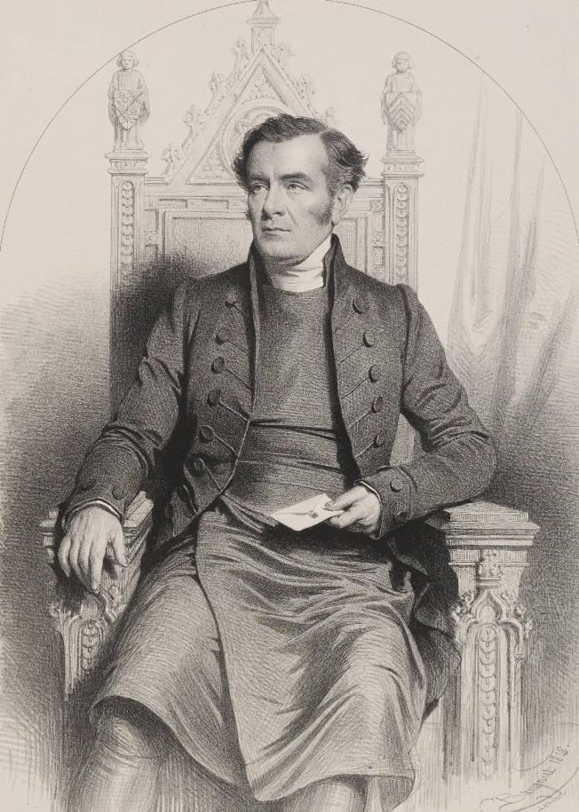 Portrait of John Merewether (1797–1850), English churchman.